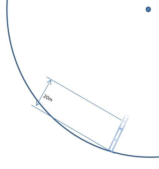 The tomb in Kasta's tumulus in Amphipolis, Macedonia, Greece. The orientation is indicative and not accurate